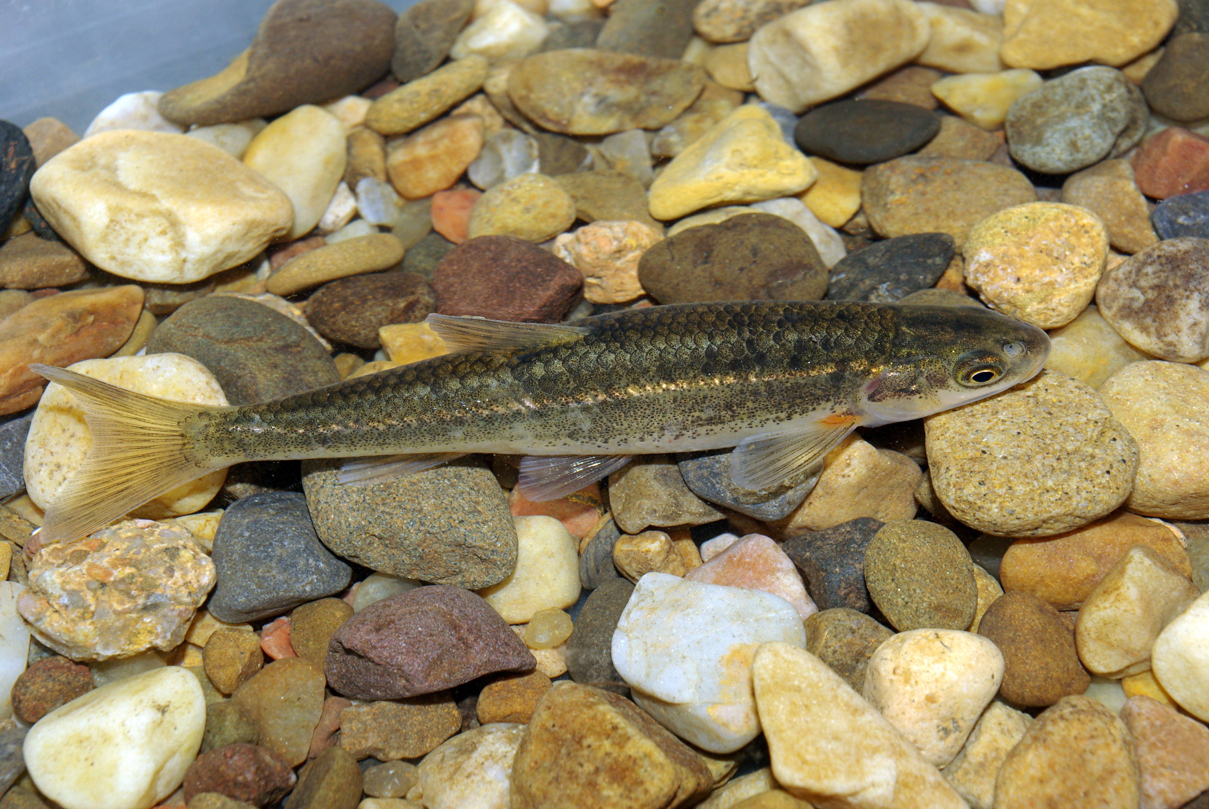 Achondrostoma arcasii. River Bernesga, León (Spain)